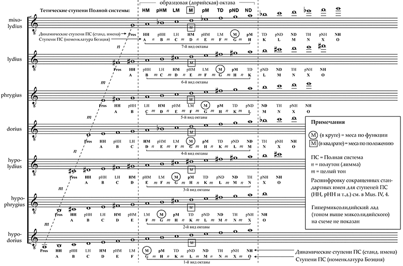 Deduction of modes from octave species (according to Boethius)